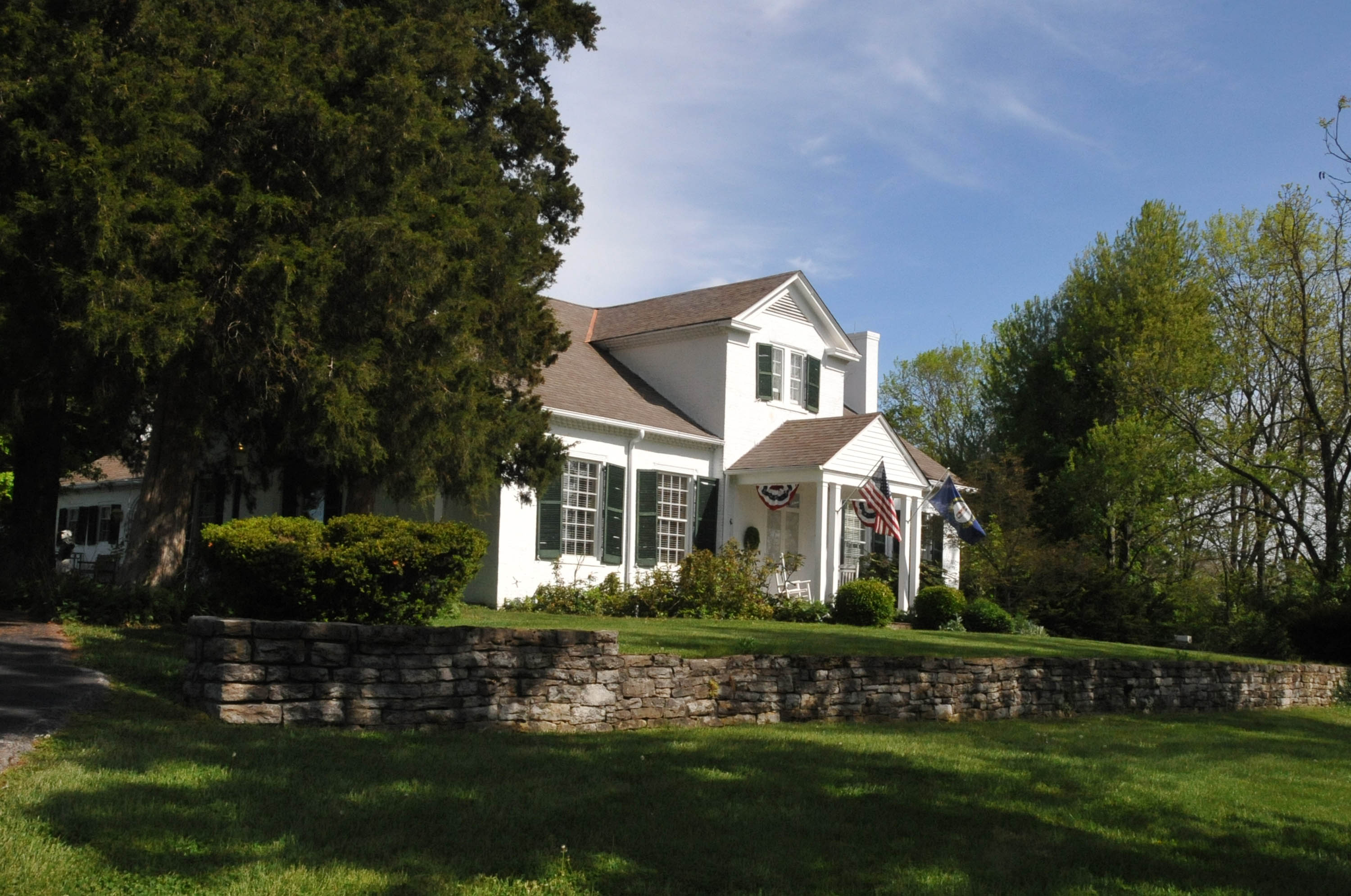 THE FARM DETERIORATED UNTIL 1933 WHEN IT WAS BOUGHT BY DR. ESLIE ASBURY. LATER HIS SON USED IT AS A WORKING FARM AND HE HAD A HORSE “DETERMINE” WIN THE 1954 KENTUCKY DERBY